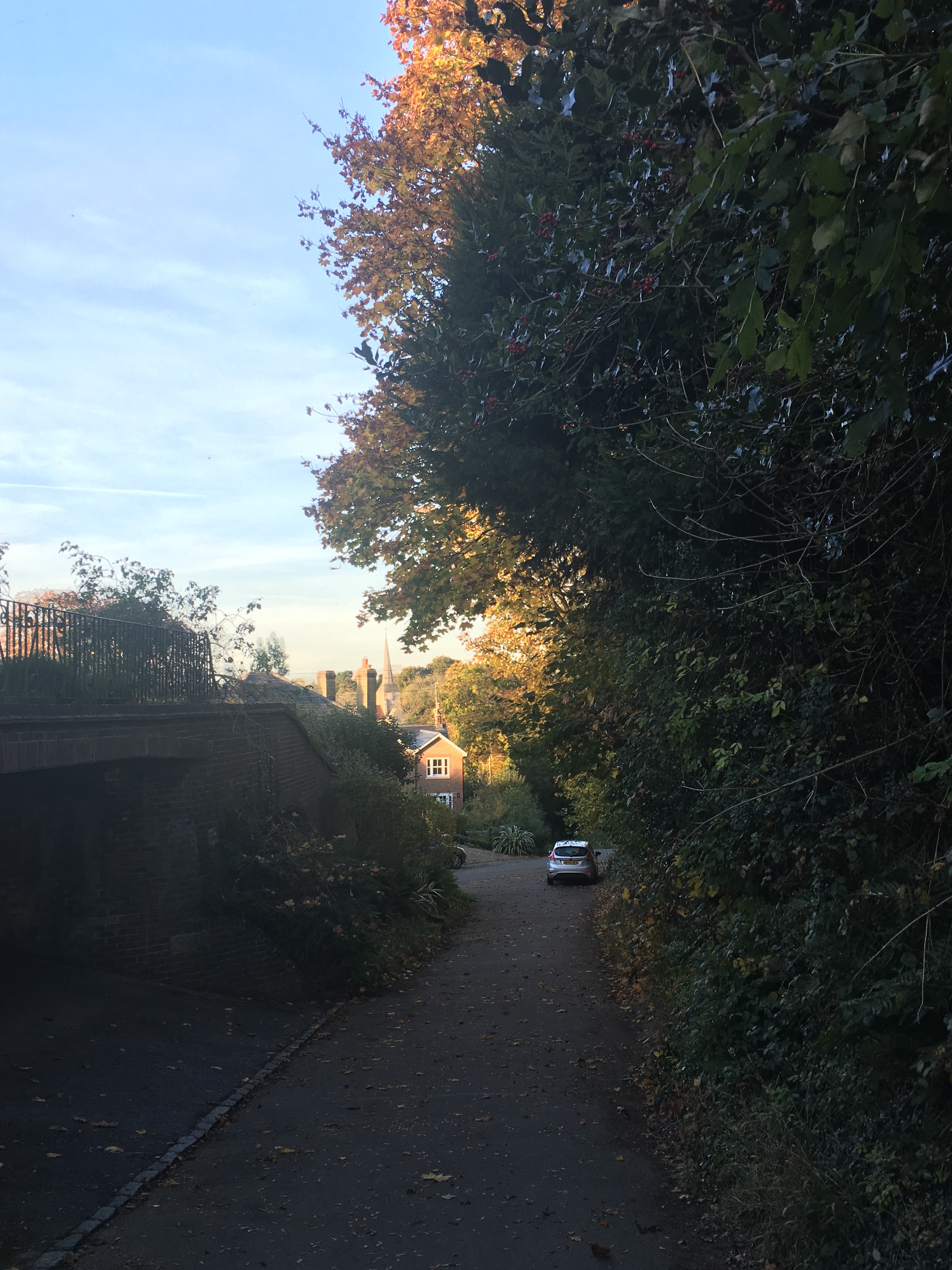 Church